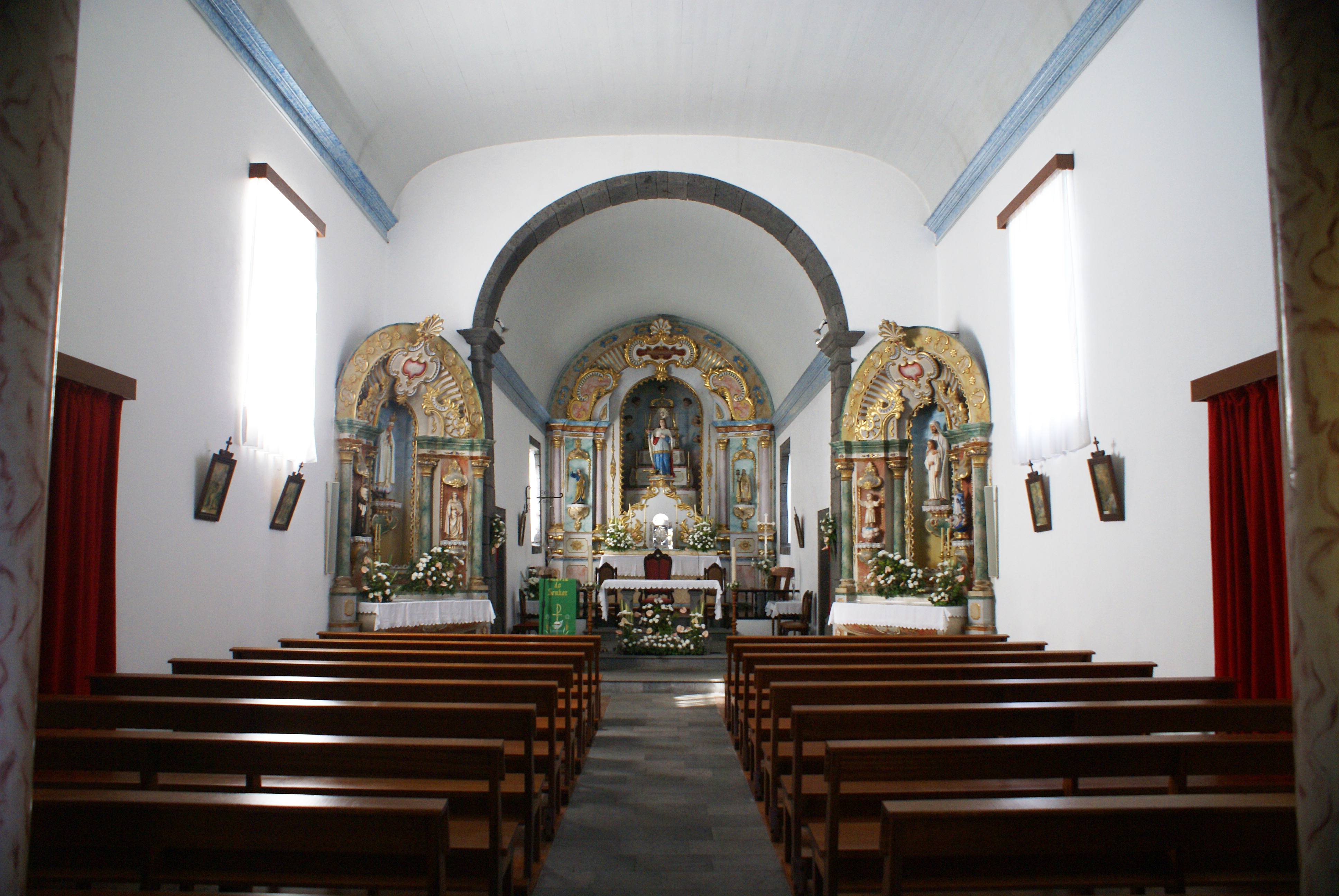 Main nave of the Chapel of Santa Margarida, São Caetano, Madalena do Pico (Azores), Portugal